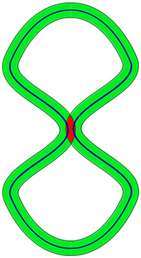 Not to go too far for Steiner-Minkowski formula.